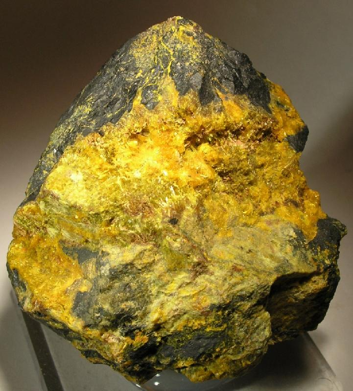 Becquerelite, Uraninite Locality: Shinkolobwe Mine (Kasolo Mine), Shinkolobwe, Central area, Katanga Copper Crescent, Katanga (Shaba), Democratic Republic of Congo (Zaïre) (Locality at ) A rich and colorful specimen just LOADED with the extremely rare uranium species Becquerelite . Ex Bill Smith collection, and recently reconfirmed by Bill Pinch, to ensure accuracy. 6.2 x 5.3 x 4 cm